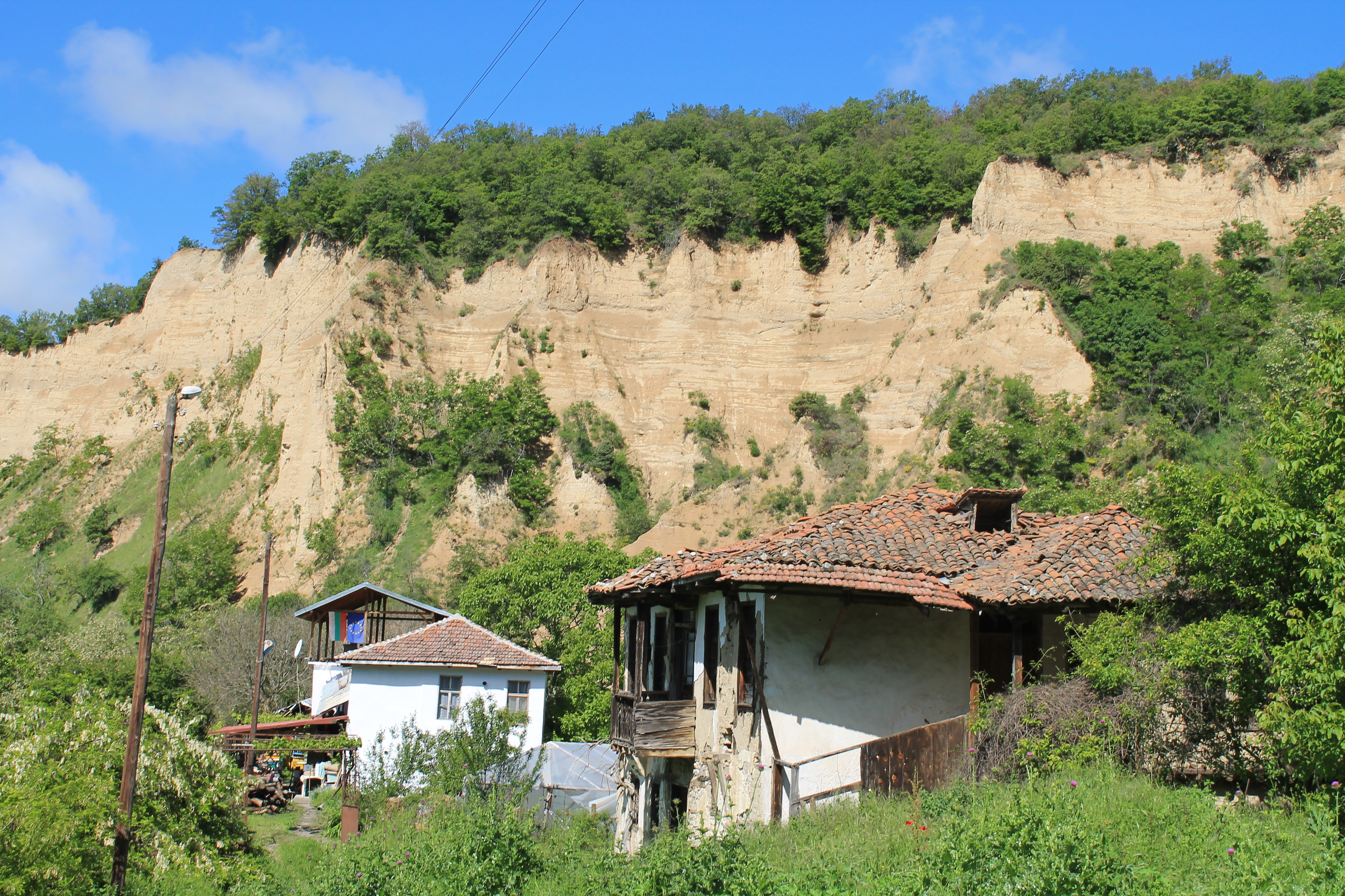 View from the village Lyubovishte, Bulgaria